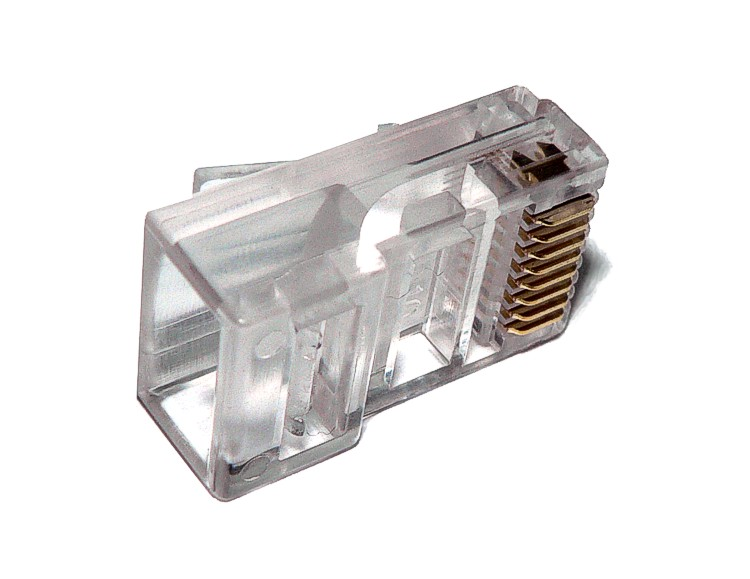 hardware RJ-45 uncrimped